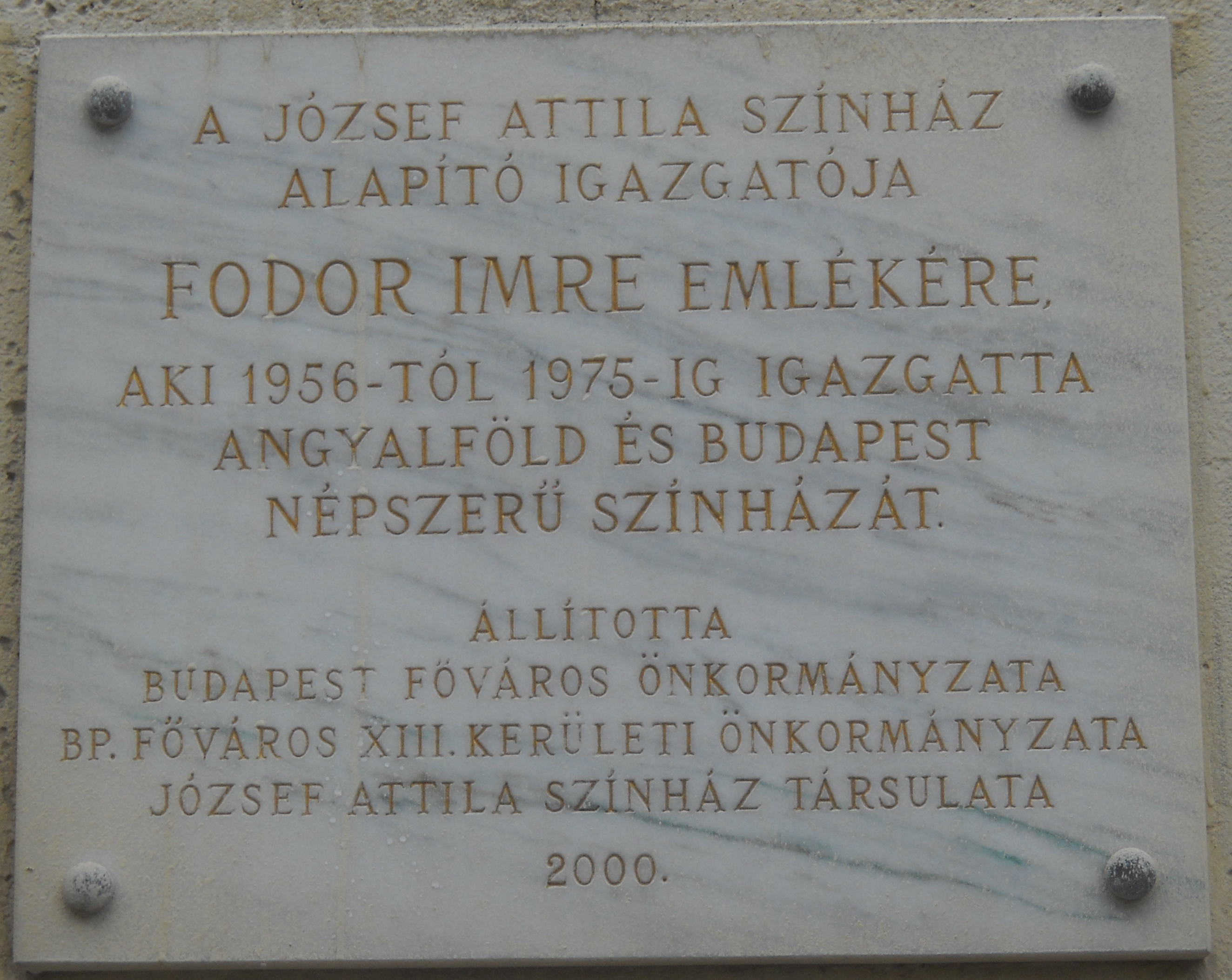 Commemorative plaque of Imre Fodor in Budapest District XIII, Déryné Passage No 1